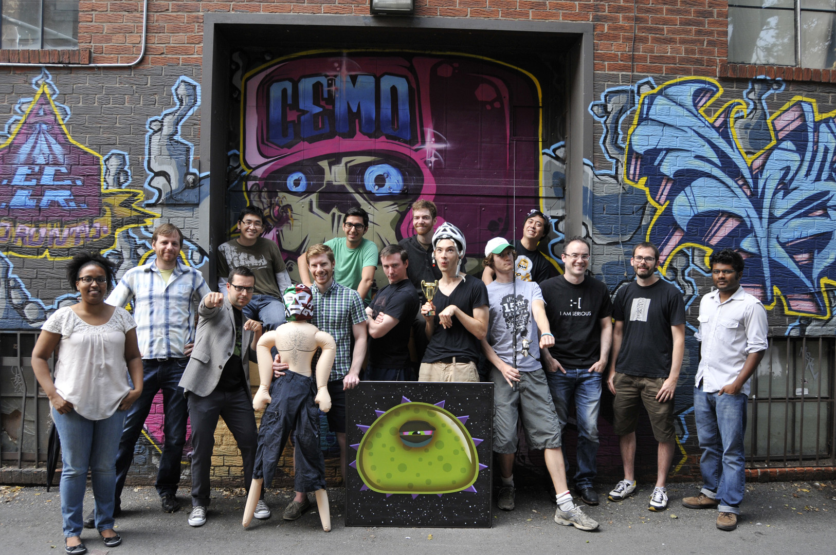 Team photo of DrinkBox Studios, makers of Guacamelee!